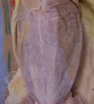 A feline rectus abdominis muscle, from a common housecat. This specimen has some remaining fascia and also shows the external obliques.